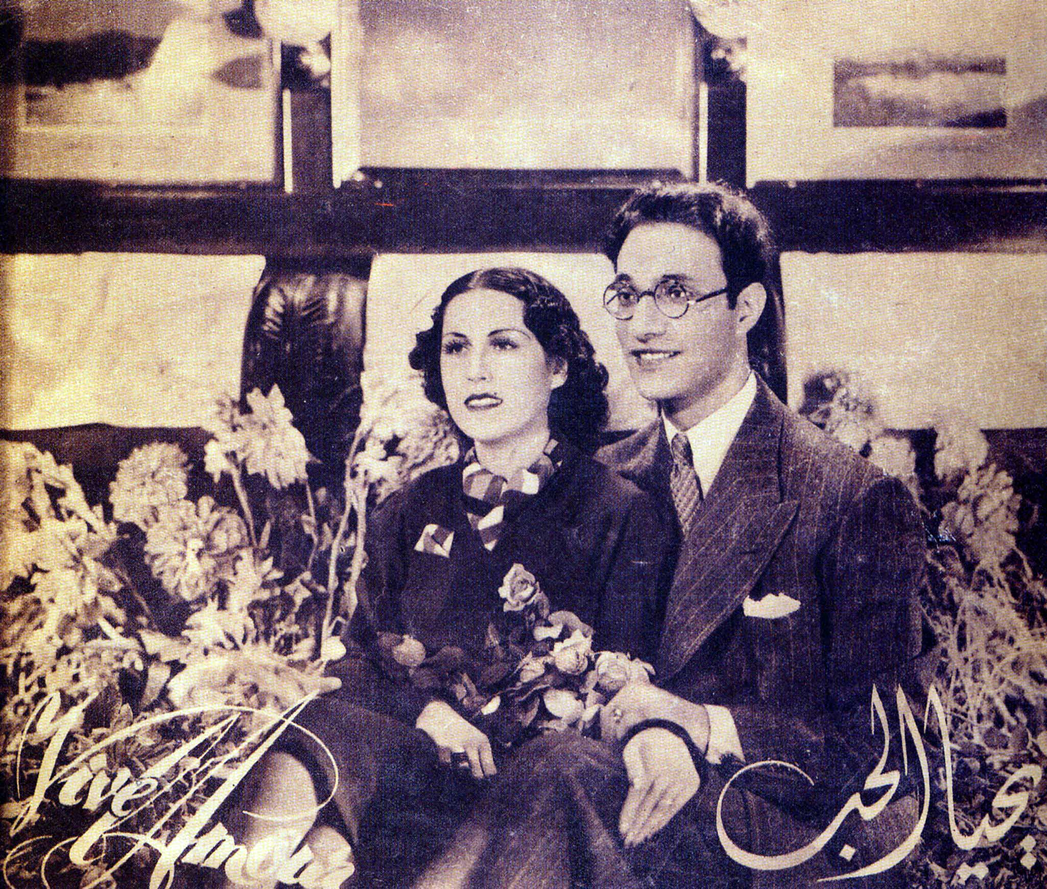 Movie poster of the Egyptian film Yahya el hub (1938).[1]